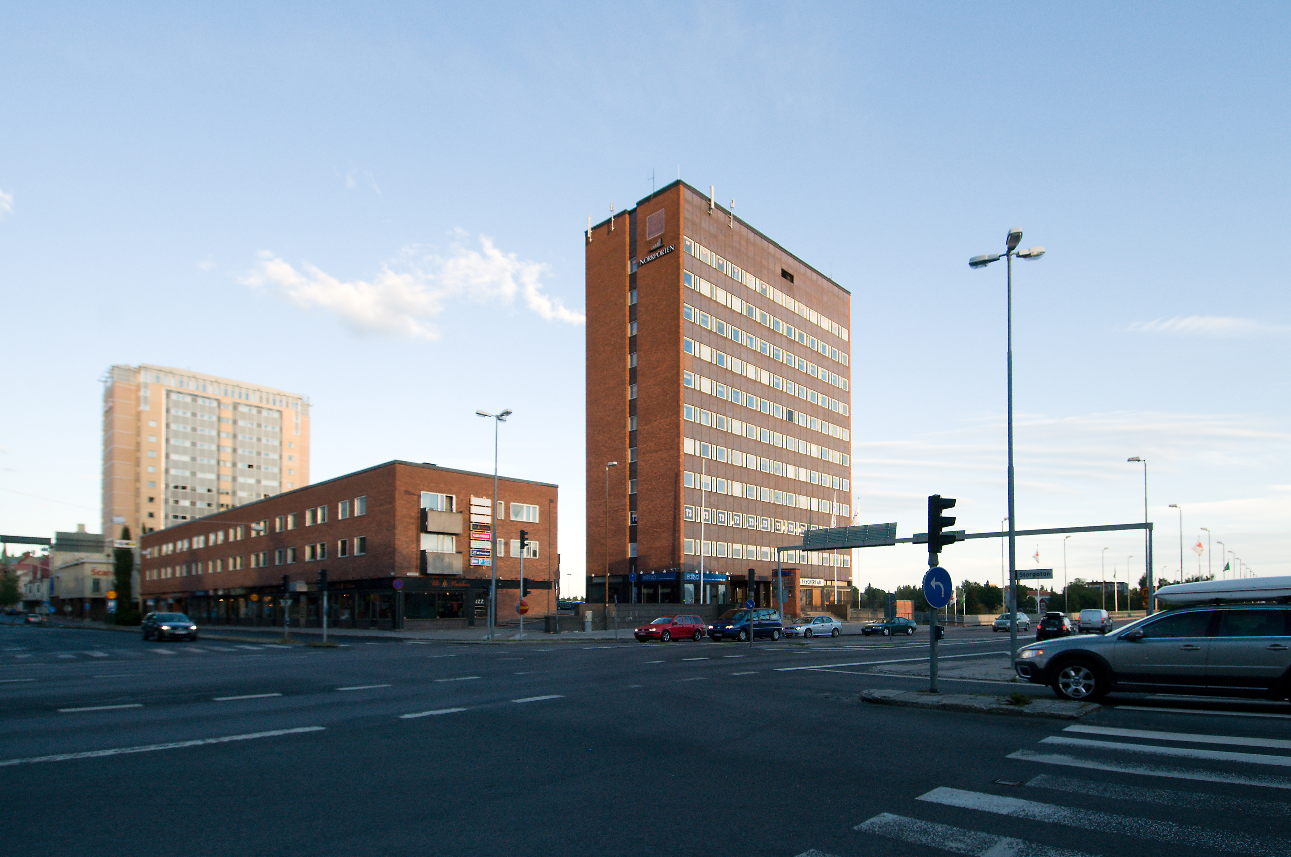 City of Umeå. Thulehuset and Hotel Plaza by Storgatan and Västra Esplanaden (E4).